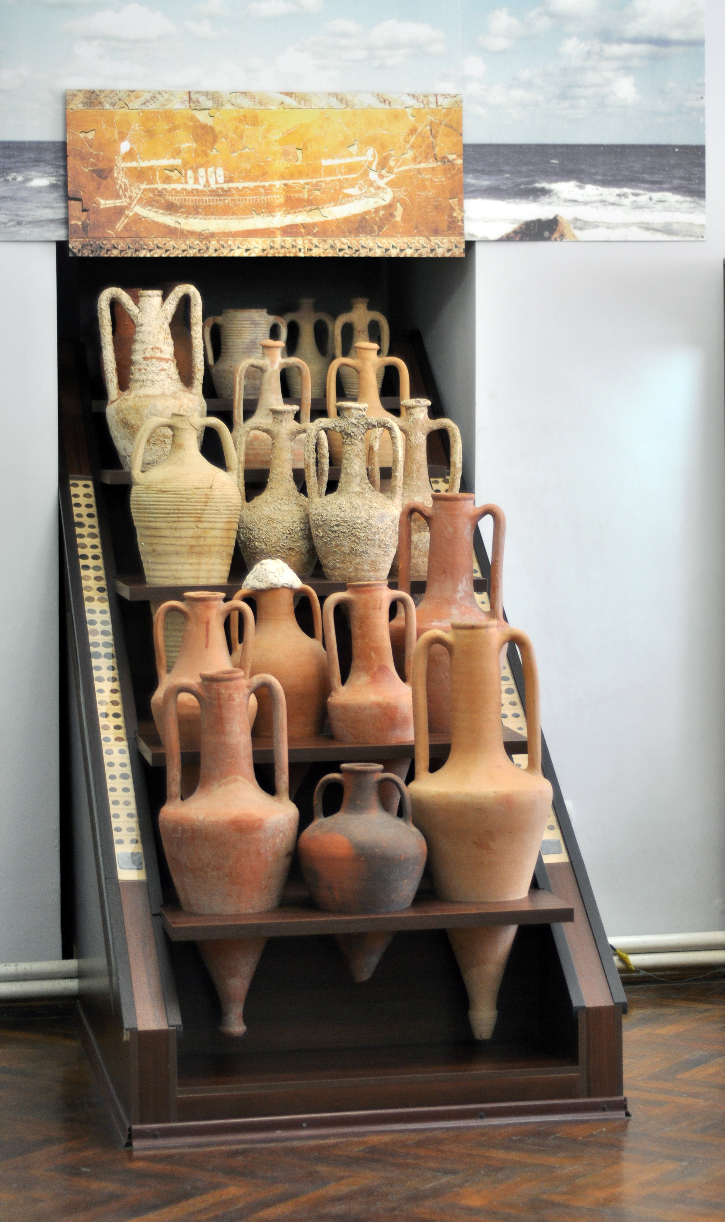 Greek amphoras. History and Archaeology Museum, Kerch, Crimea.